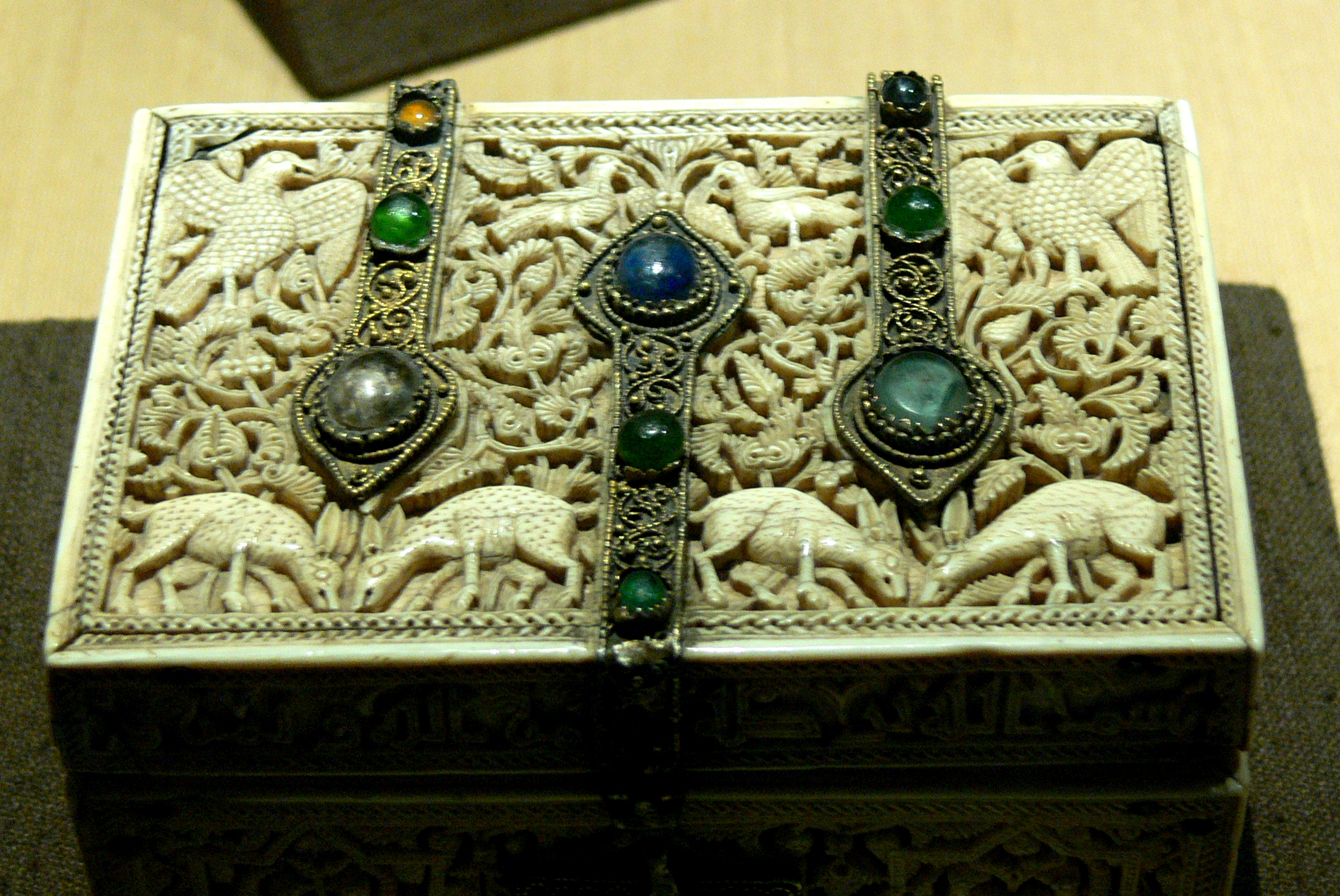 Museo del Bargello ( Florence ). Umayyad ivory casket ( 9th century ) from Spain.